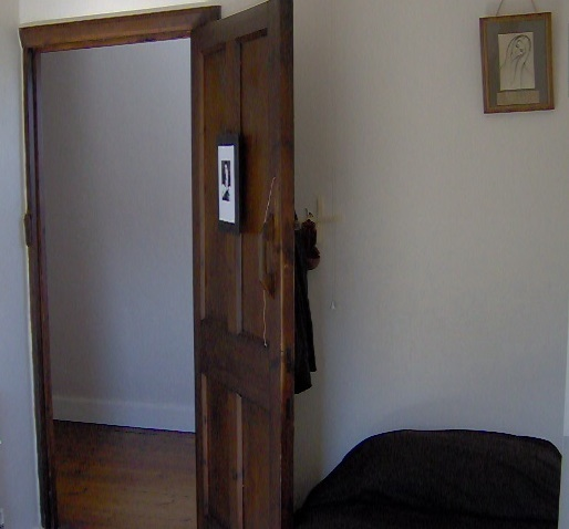 Cell of a Discalced Carmelite nun